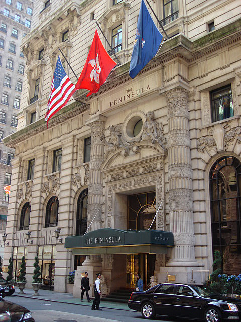 The entrance to The Peninsula Hotel in New York City.